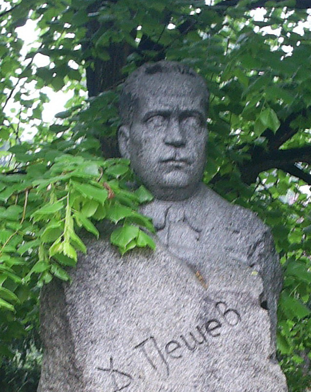 Monument of Dimitar Peshev, Kyustendil